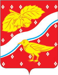 Orekhovo-Zuevo (Moscow oblast), coat of arms